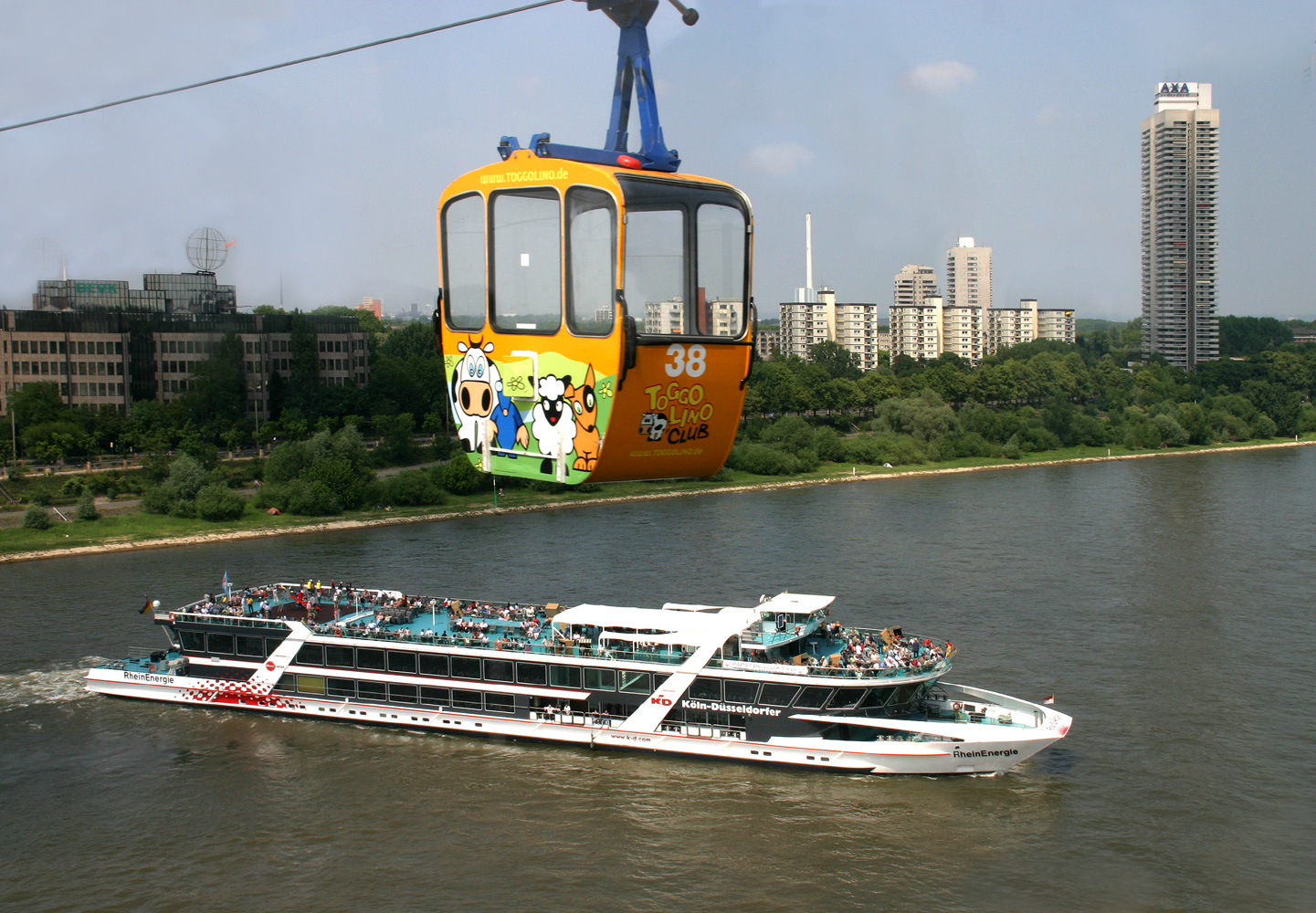 Cologne Rhein ropeway and Colonia building, Passenger ship MS RheinEnergie, company: Köln-Düsseldorfer